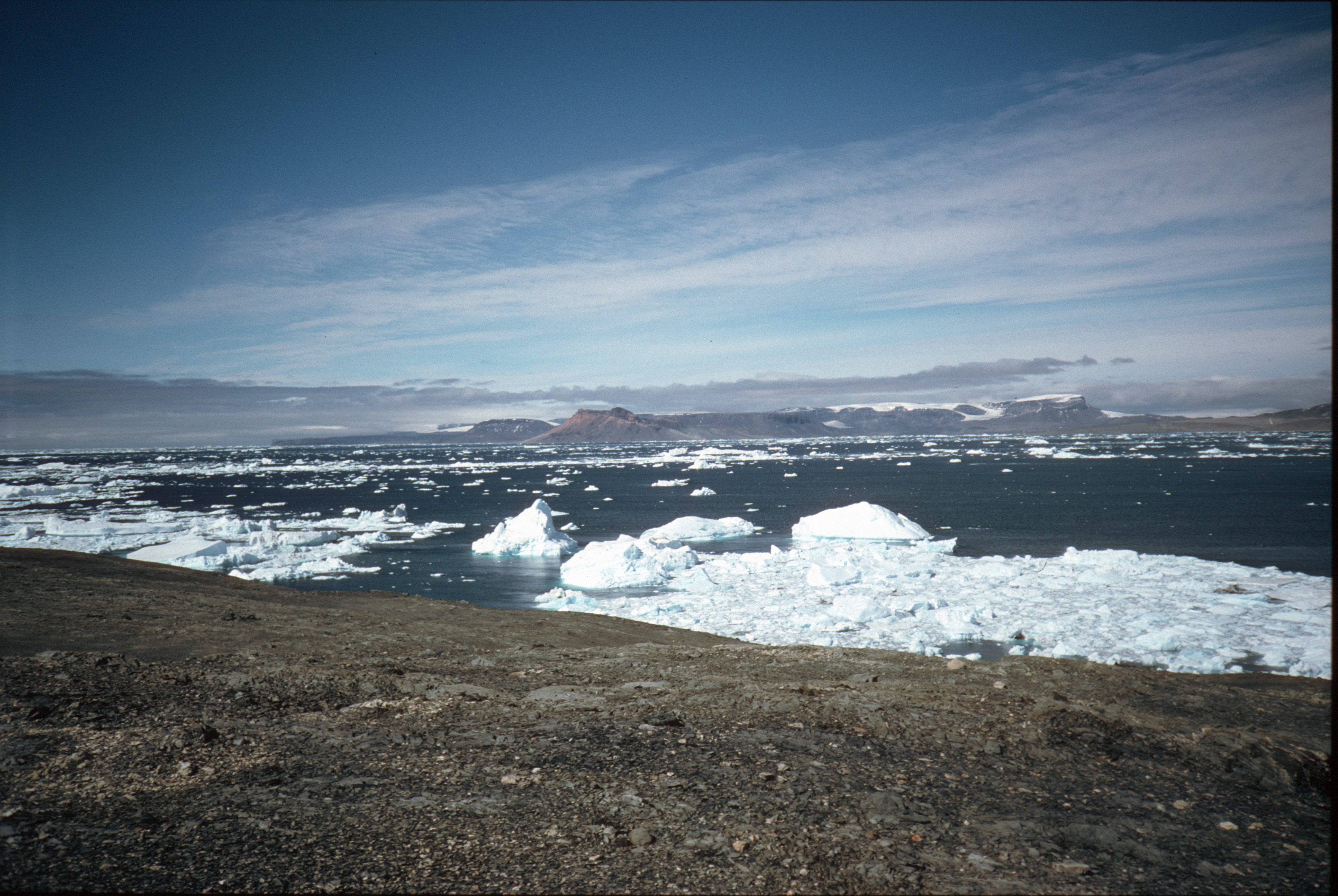 Long Island view towards James Ross Island, Antarctica